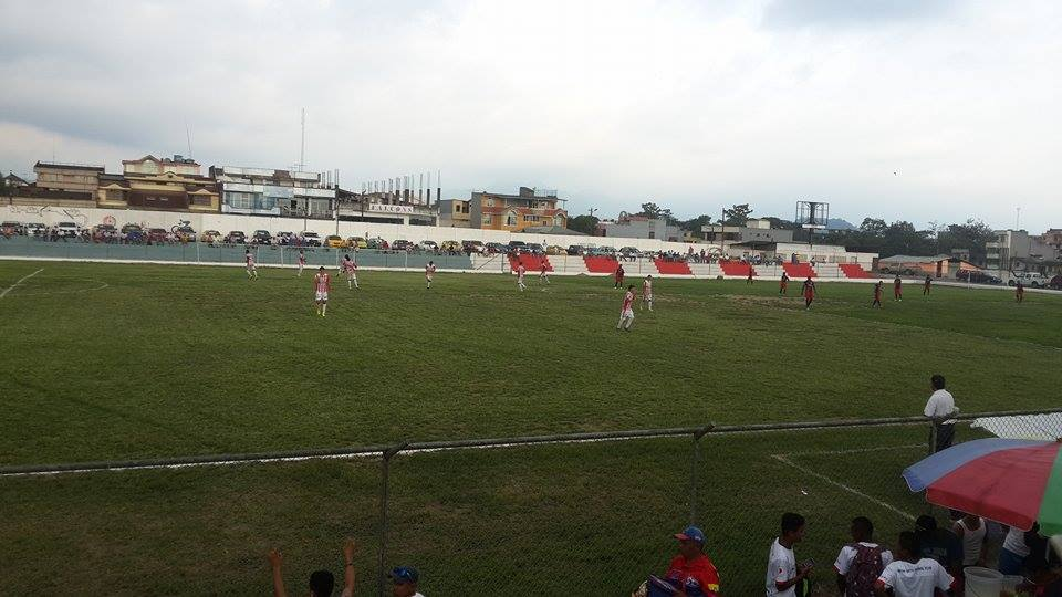 Estadio Obando y Pacheco